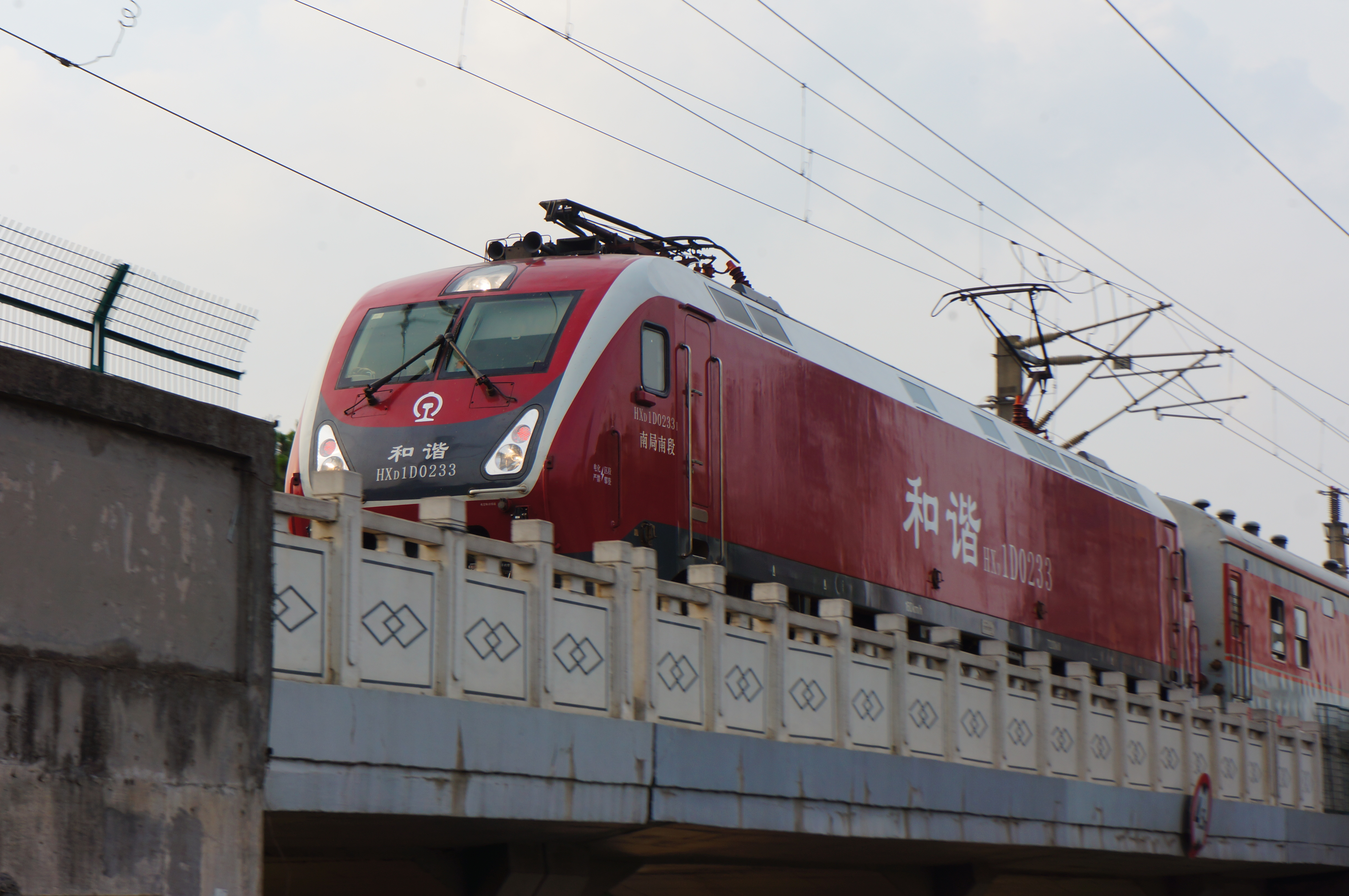 201607 HXD1D-0233 with K253 between Linping and Qiaosi